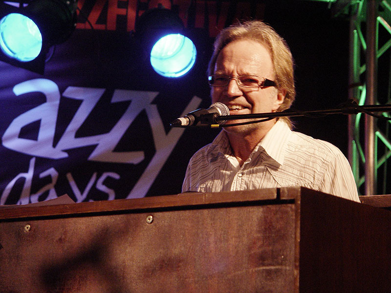 Pierre Swärd at Jassy Days in Denmark